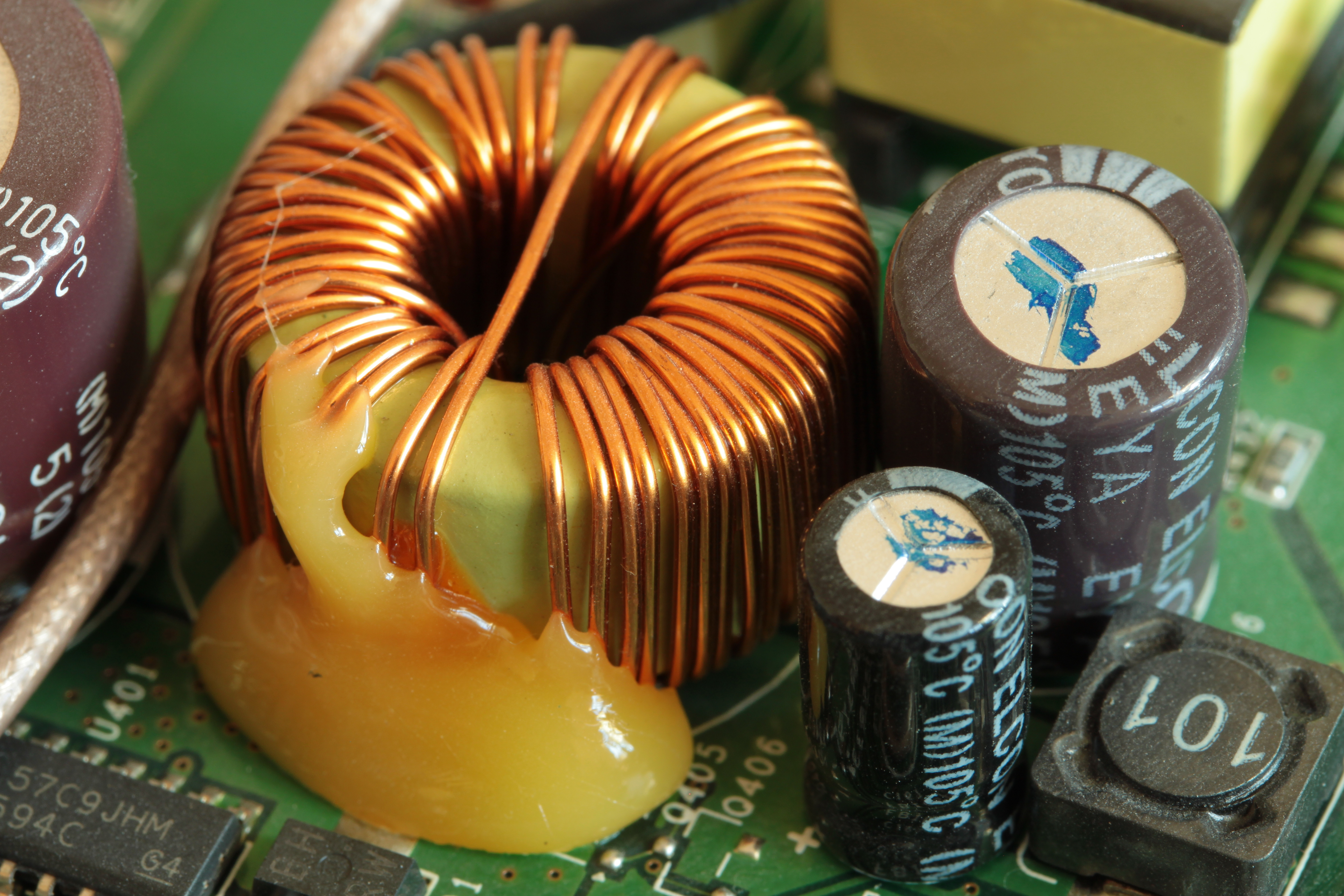 Toroidal inductor in the power supply of a wireless router (3Com OfficeConnect ADSL Wireless 11g Firewall Router (3CRWDR100Y-72))